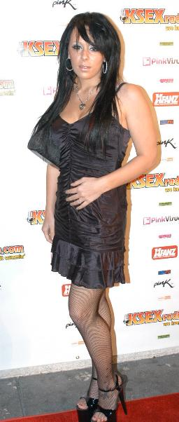 Isis Ray at Listeners Choice Awards, December 2 2006